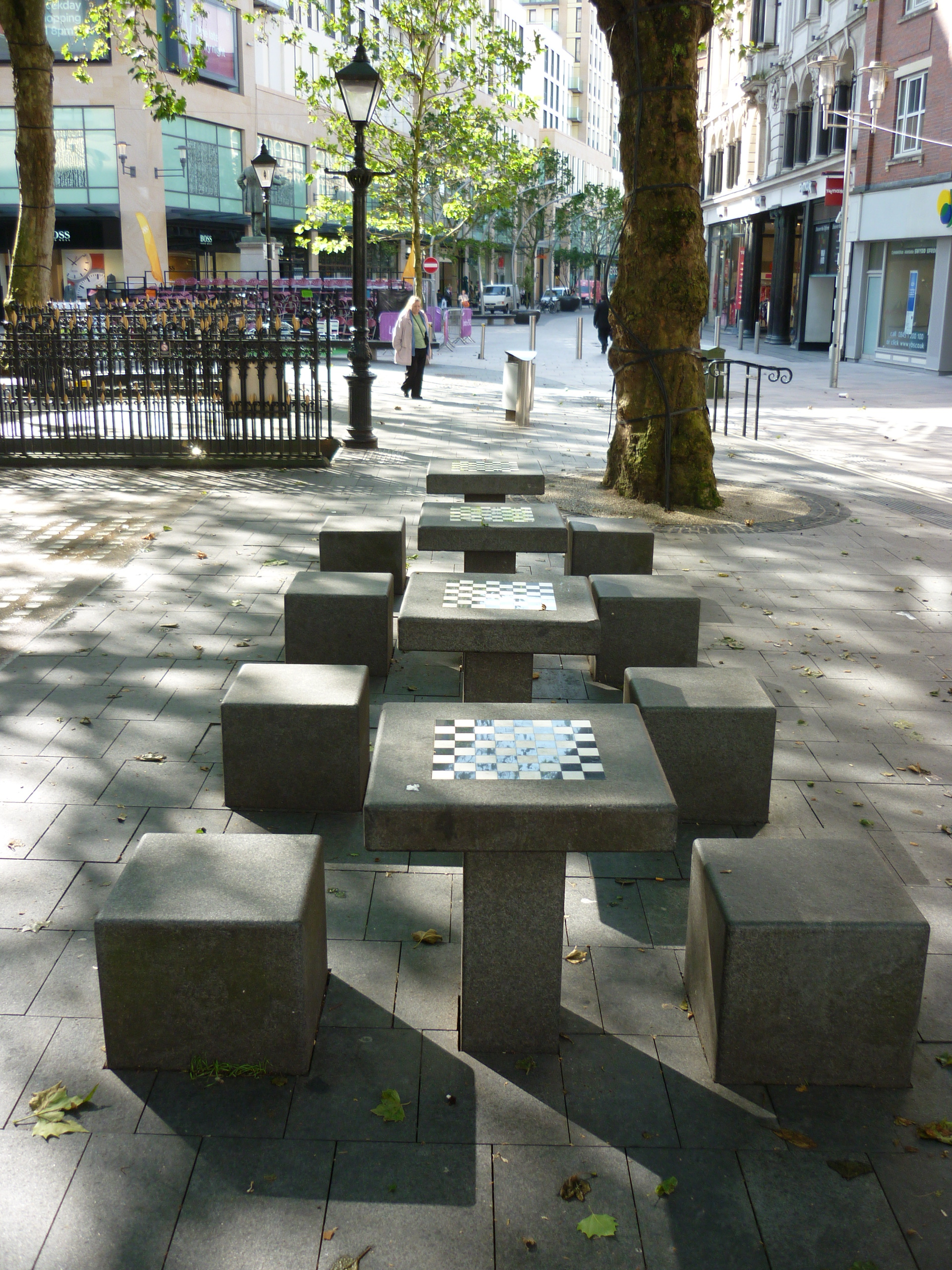 Public chess tables at The Hayes, Cardiff by the artist Bedwyr Williams